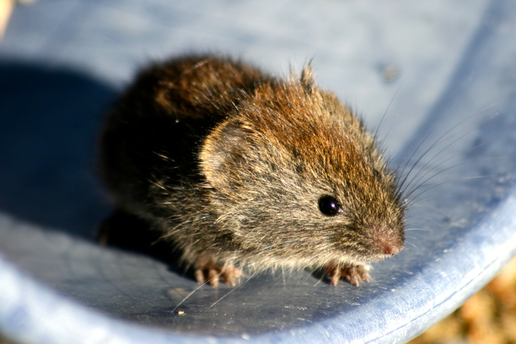 Myodes rufocanus in Savukoski, Lapland (Lapland, Finland).